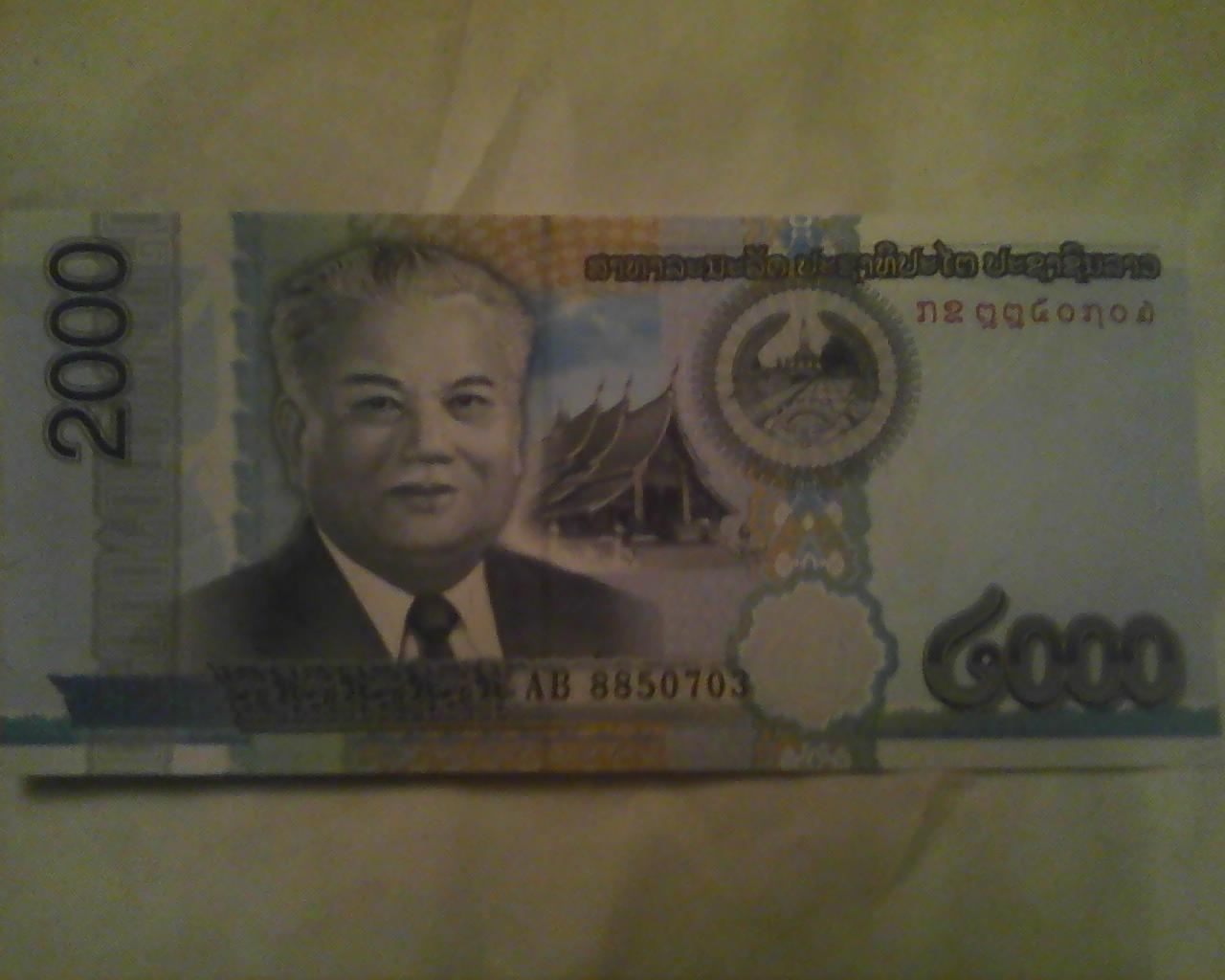 2000 kip 2011